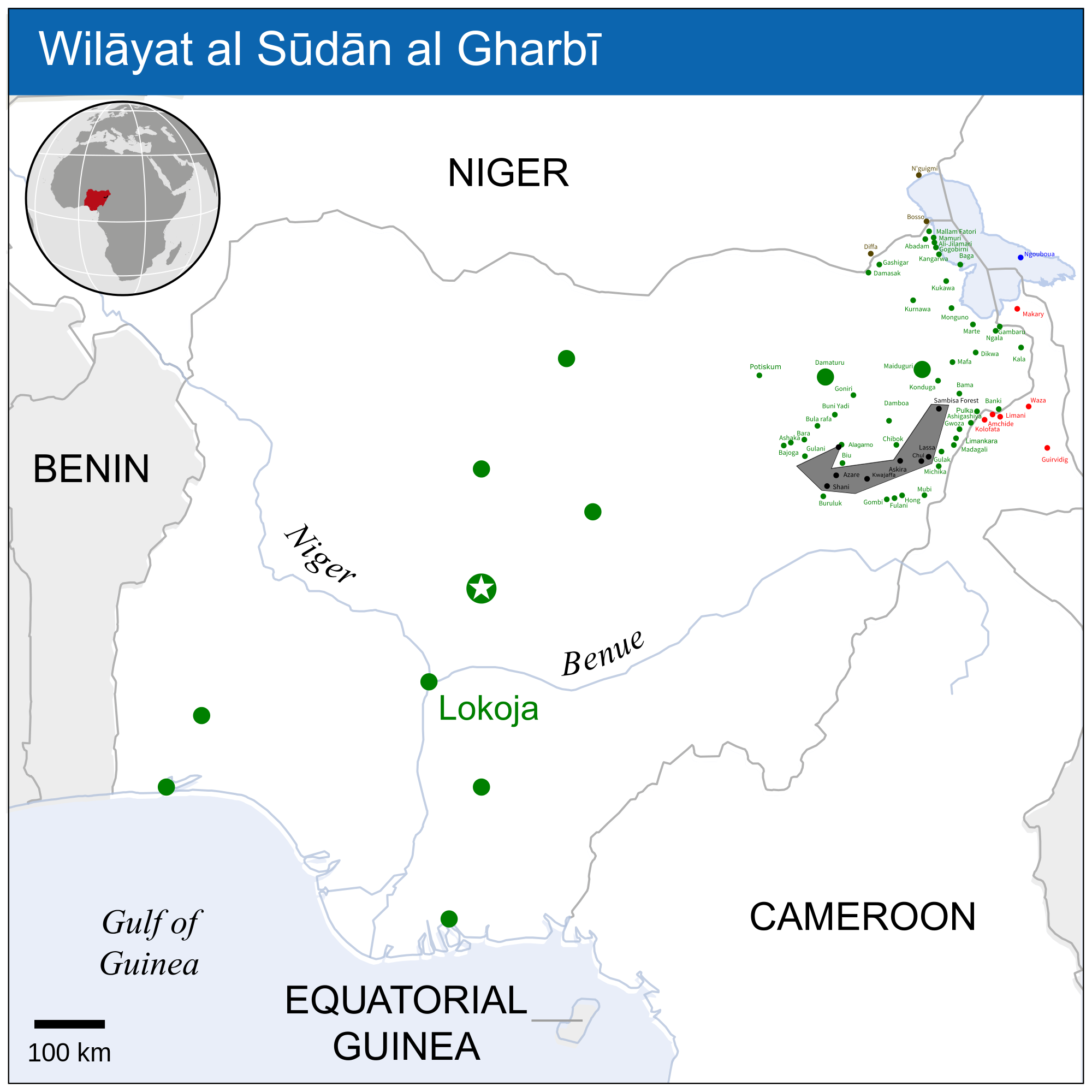 Map of Wilāyat al Sūdān al Gharbī, the provincial designation for Boko Haram, which pledged allegiance to ISIL on March 7, 2015. Boko Haram now functions as ISIL's West African branch.